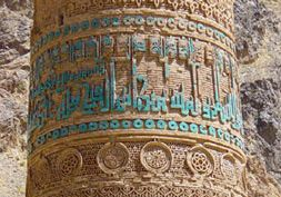 Decorated exterior of the Minaret of Jam